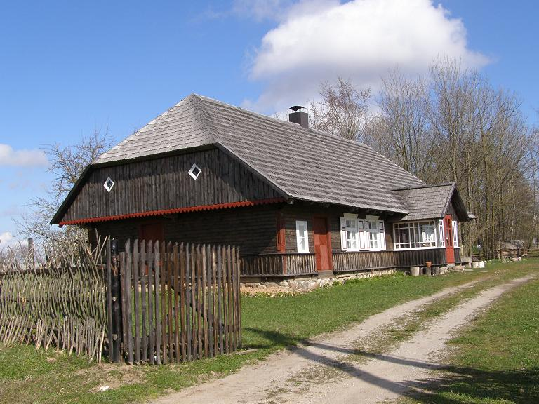 Erlėnai, Kretinga district, Lithuania